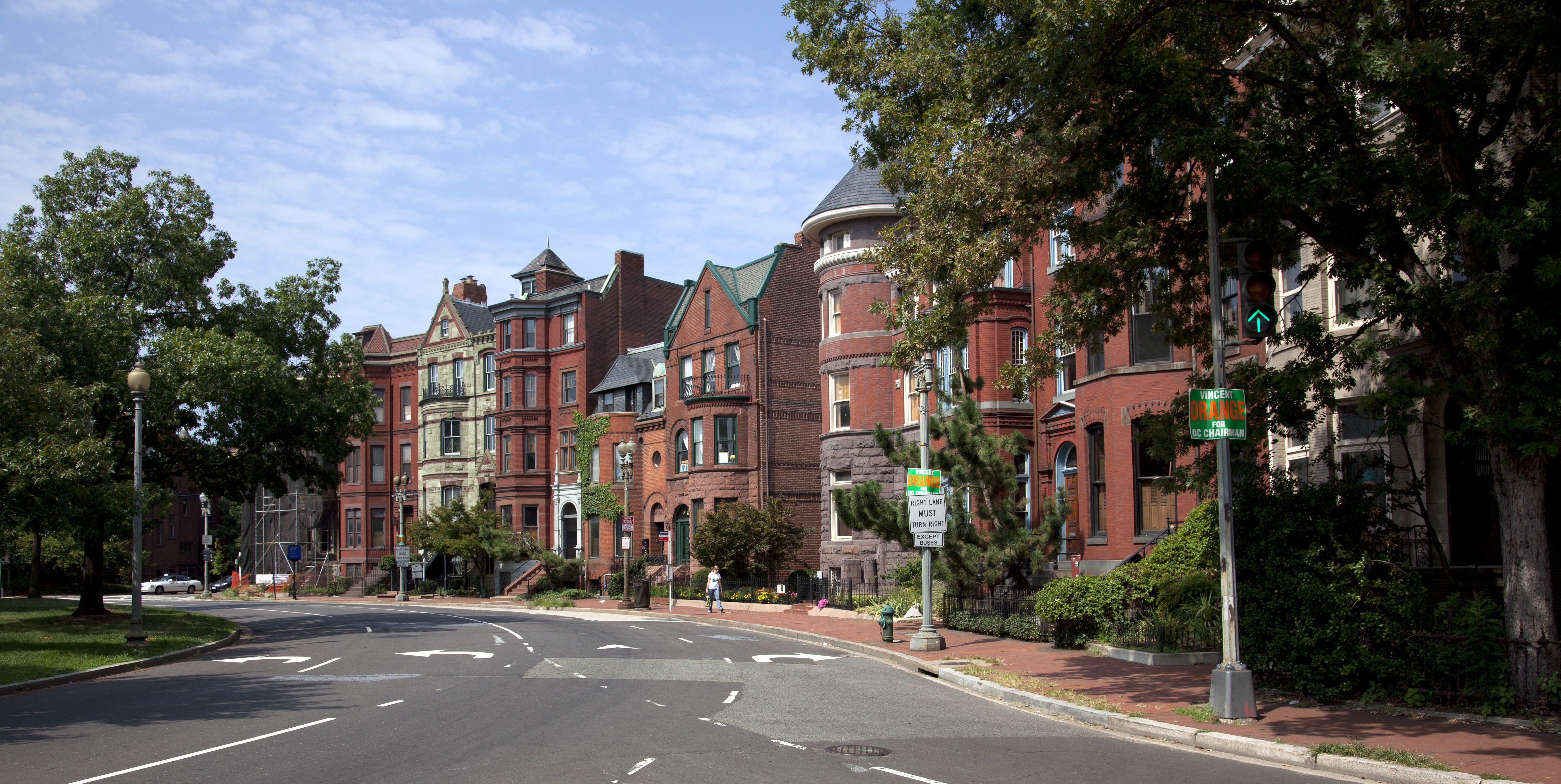 Row houses on the northwest corner of Logan Circle in Washington, D.C.